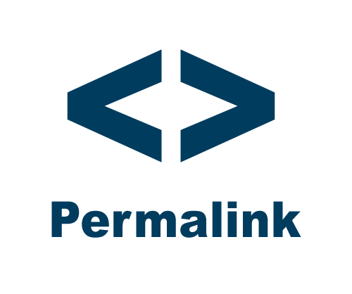 Logo Permalink